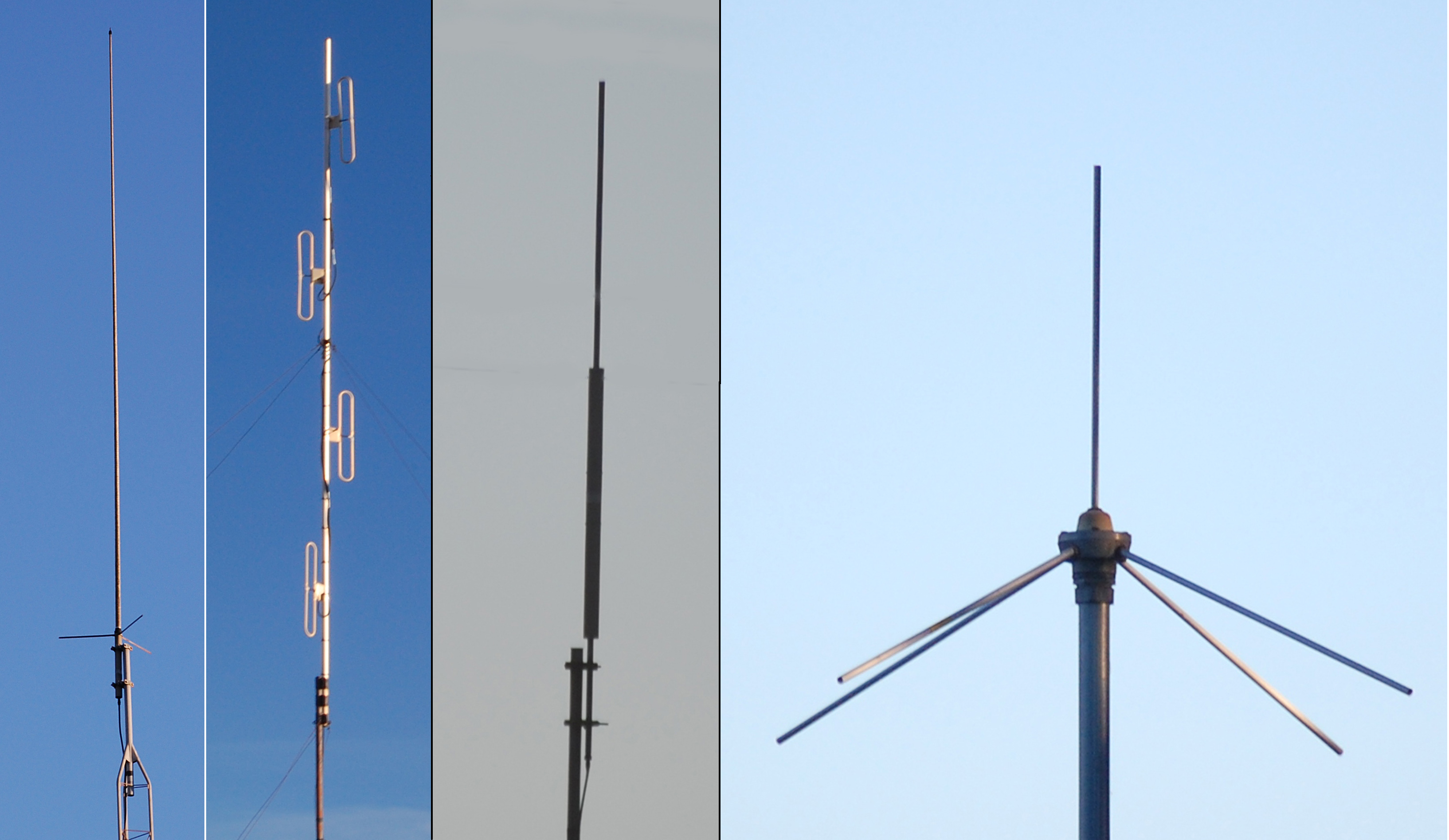 Montage of four professional US omnidirectional base station antennas shown left to right (overall length): colinear array (15-22 feet top-to-bottom), four-element exposed-dipole array (8-12 feet top-to-bottom), coaxial antenna (4-6 feet top-to-bottom), ground plane antenna (2 feet top-to-bottom). These views are not representative of relative lengths. Smaller antennas at right are closer views than larger antennas at left. Specifications for similar antennas are available at the links below. Please add links to other professional 136-174 MHz antennas.